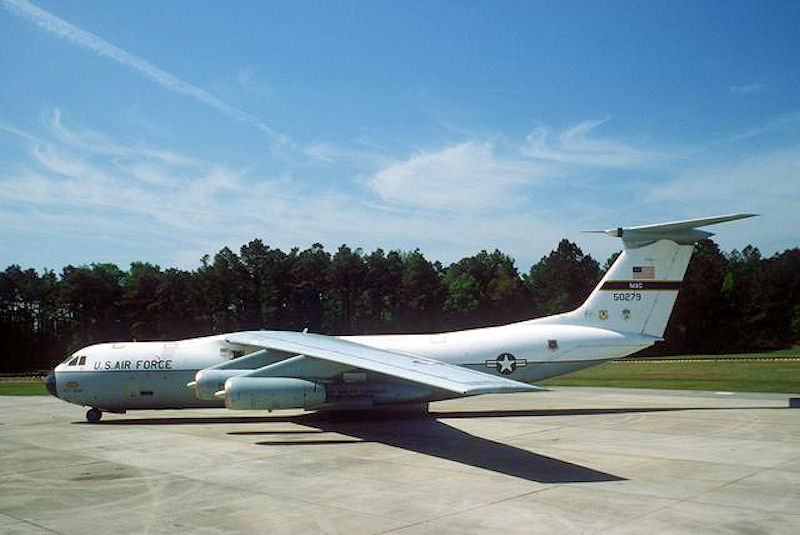 Lockheed C-141A-LM Starlifter 65-0279. (c/n 300-6131) Conveted to C-141B about 1980. Retired to AMARC as CR0154 Feb 5, 2002. Scrapped at AMARC